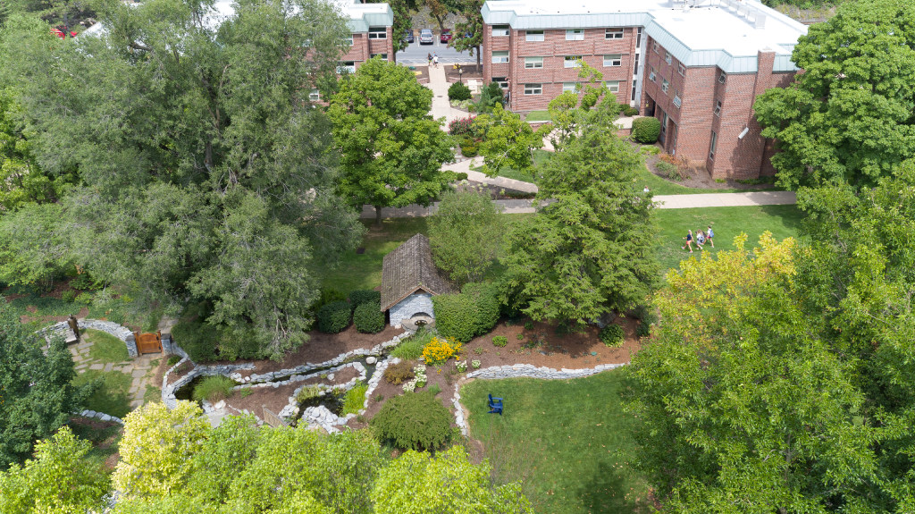 LVC's Peace Garden is located in the middle of the College's Residential Quad and is a popular place to study, and take photos for families celebrating life milestones, including weddings.